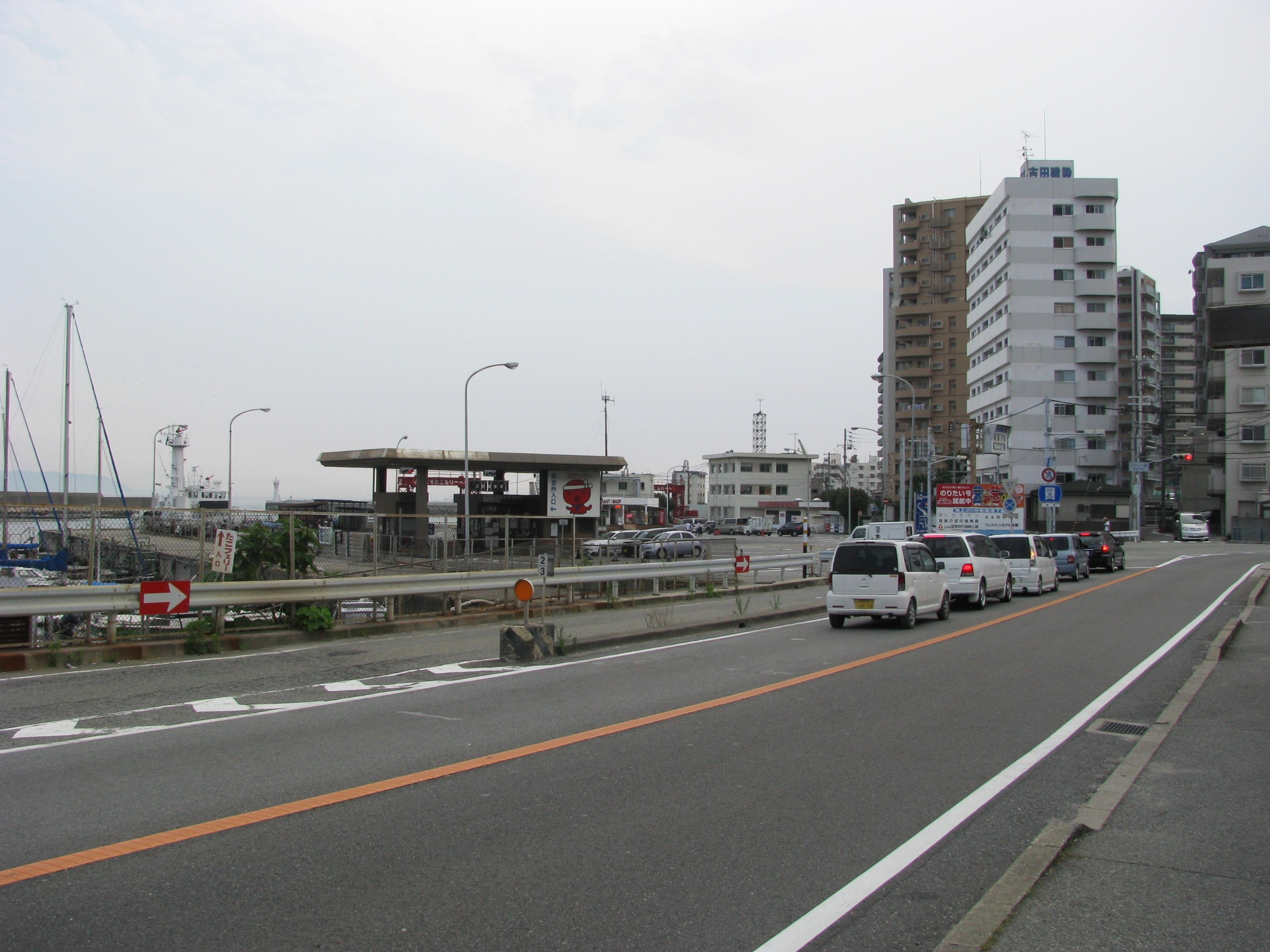 The Japan National Route 28. This place is the Akashi Port in Akashi, Hyōgo, Japan.